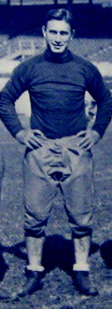 digitally enhanced detail of 1929 picture of Benny Friedman in my private collection